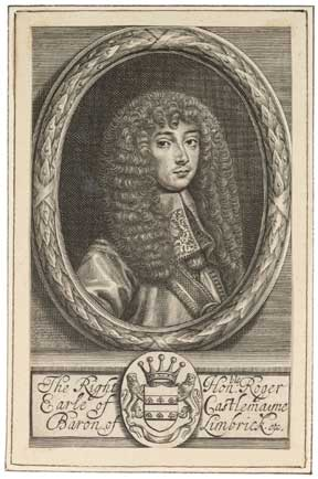 Roger Palmer, Earl of Castlemaine (1634-1705). From The Earl of Castlemain's Manifesto (1681).